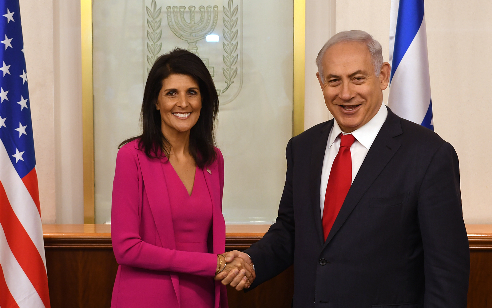 U.S. Permanent Representative to the UN, Ambassador Nikki Haley meets Israeli Prime Minister Benjamin Netanyahu at his office in Jerusalem, June 7, 2017. U.S. Permanent Representative to the UN, Ambassador Nikki Haley meets Israeli President Reuven Rivlin at the President’s Residence in Jerusalem, June 7, 2017.